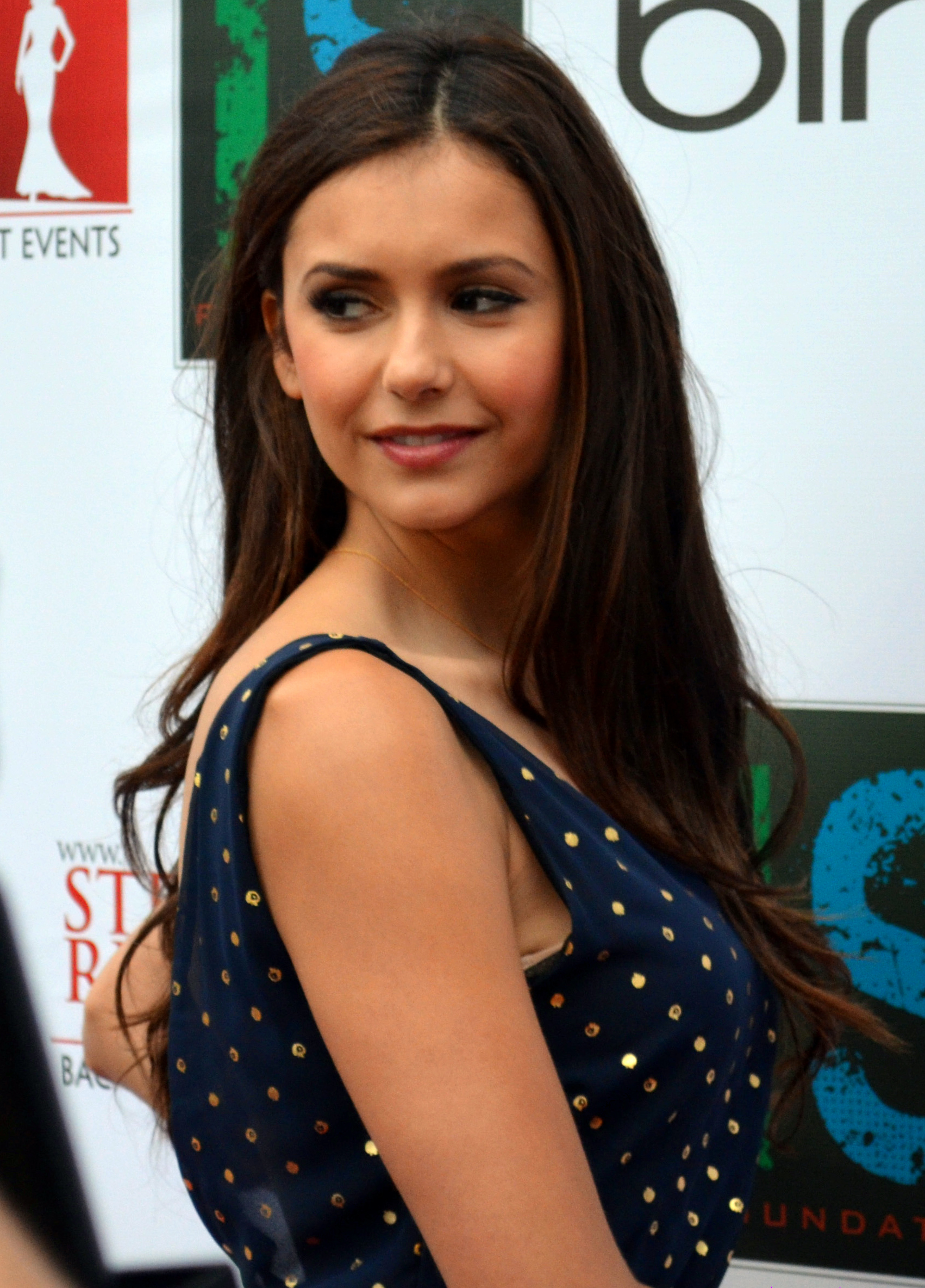 Nina Dobrev at the Ian Somerhalder Foundation's Influence Affair Red Carpet 2012.